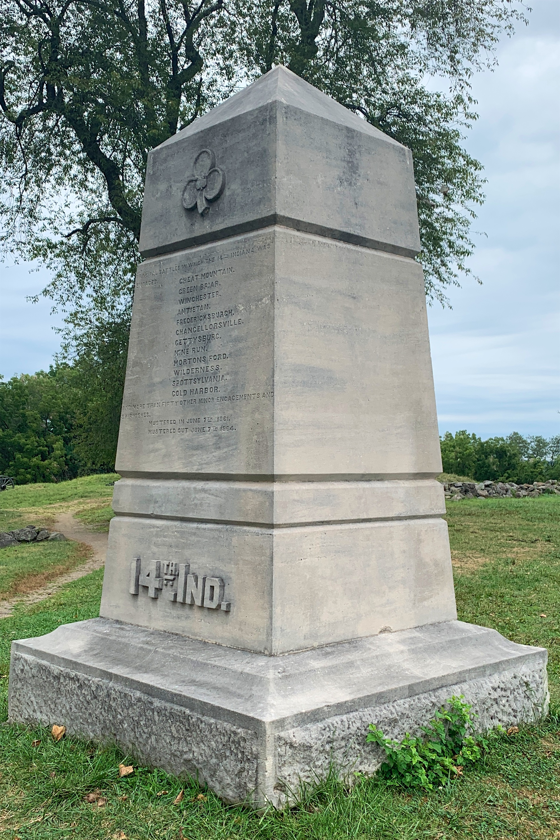 Monument to the 14th Indiana Infantry on the summit of East Cemetery Hill, contributing to the Gettysburg National Military Park. LCS 009620 MN308-B Made of Indiana limestone.